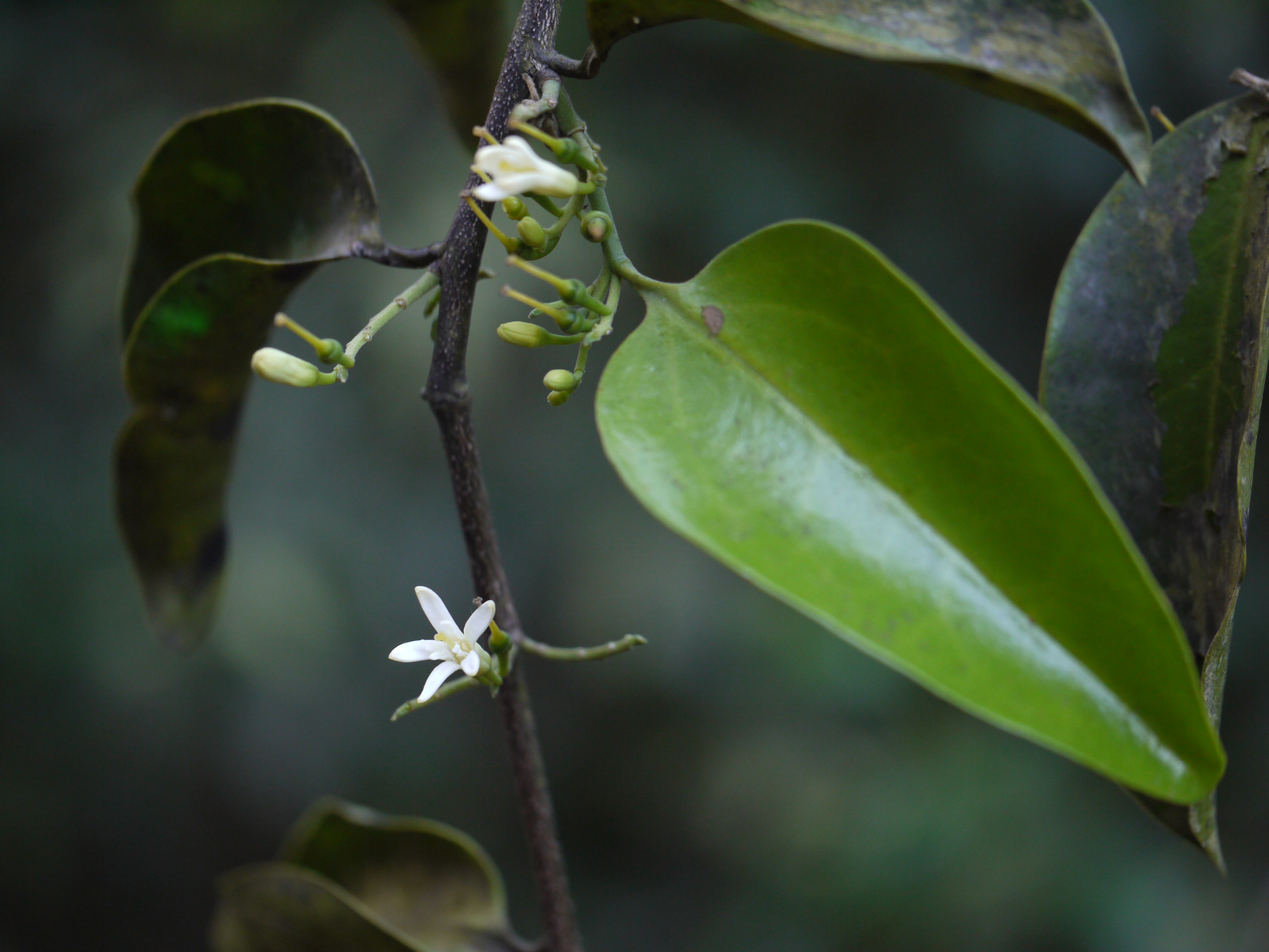 Olacaceae (sour plum family) » Olax psittacorum (Willd.) Vahl OH-laks -- smelling; referring to plants' odorous nature ... A Latin Dictionary sit-a-KOR-um -- from the Greek psittakos (of parrots) ... Dave's Botanary commonly known as: sprawling olax • Bengali: ককো আরু koko-aru • Hindi: ¿ ढेनिआनी or धेनिआनी ? dheniani • Marathi: हरडुली harduli • Oriya: ଭଦଭଦଳିଆ bhadabhadalia • Santal: hund • Tamil: கடலிறஞ்சி kataliranci • Telugu: తురకవేప turakavepa Native to: India References: Flora of the Presidency of Bombay • Indian Medicinal Plants • GRIN • FRLHT